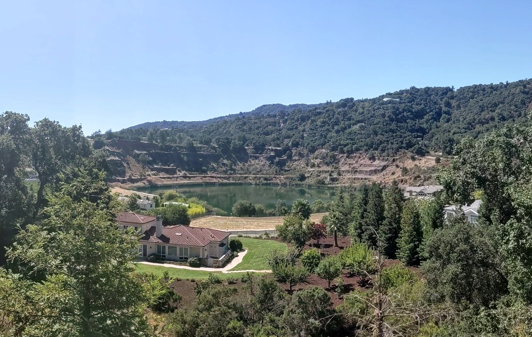 A view of Neary Quarry's like (on Hale Creek) from Stonebrook Drive, Los Altos Hills, California